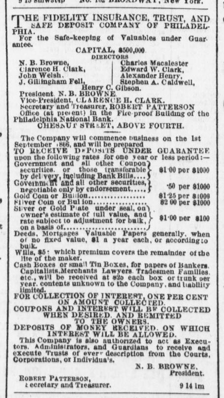 This advertisement for Fidelity Insurance, Trust, and Safe Deposit Company of Philadelphia appeared on September 19, 1866, in the (Philadelphia) Evening Telegraph newspaper (Fifth edition, page 4). The digital scan of the page is held by the Library of Congress at